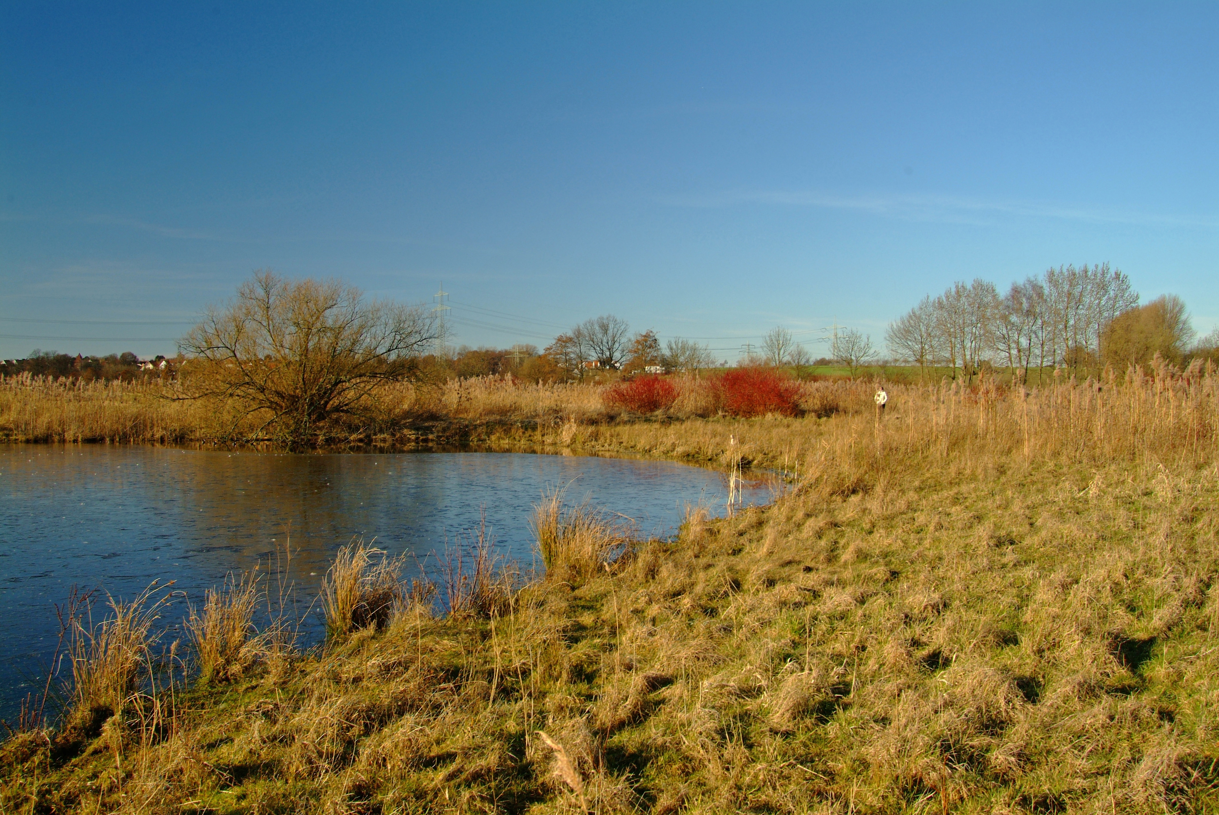 Little lake in nature reserve Fuellenbruch in Herford and in Hiddenhausen, District of Herford, North Rhine-Westphalia, Germany.